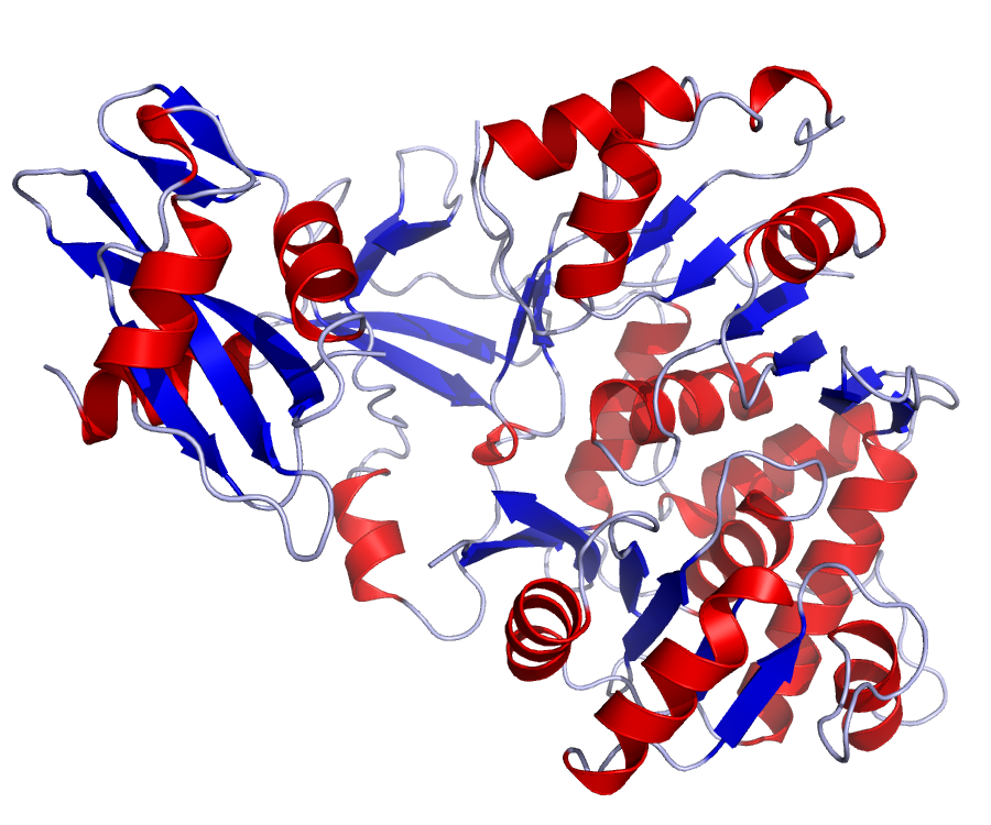 Crystal structure of Photinus pyralis firefly luciferase as published in the Protein Data Bank (PDB: 1LCI)